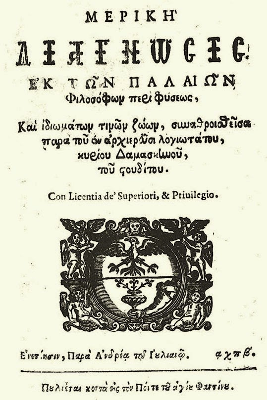 Book of Damaskinos Stouditis.